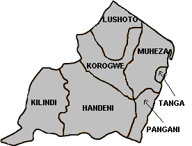 Created by Andrew Coe